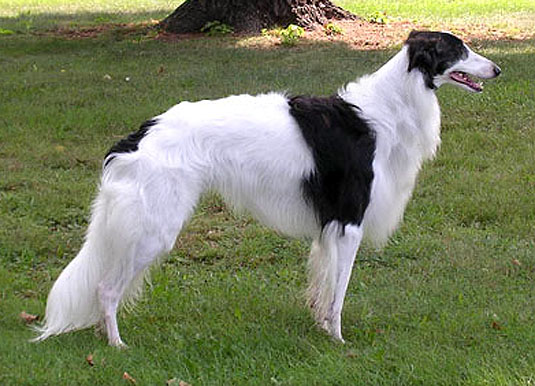 A black and white Silken Windhound